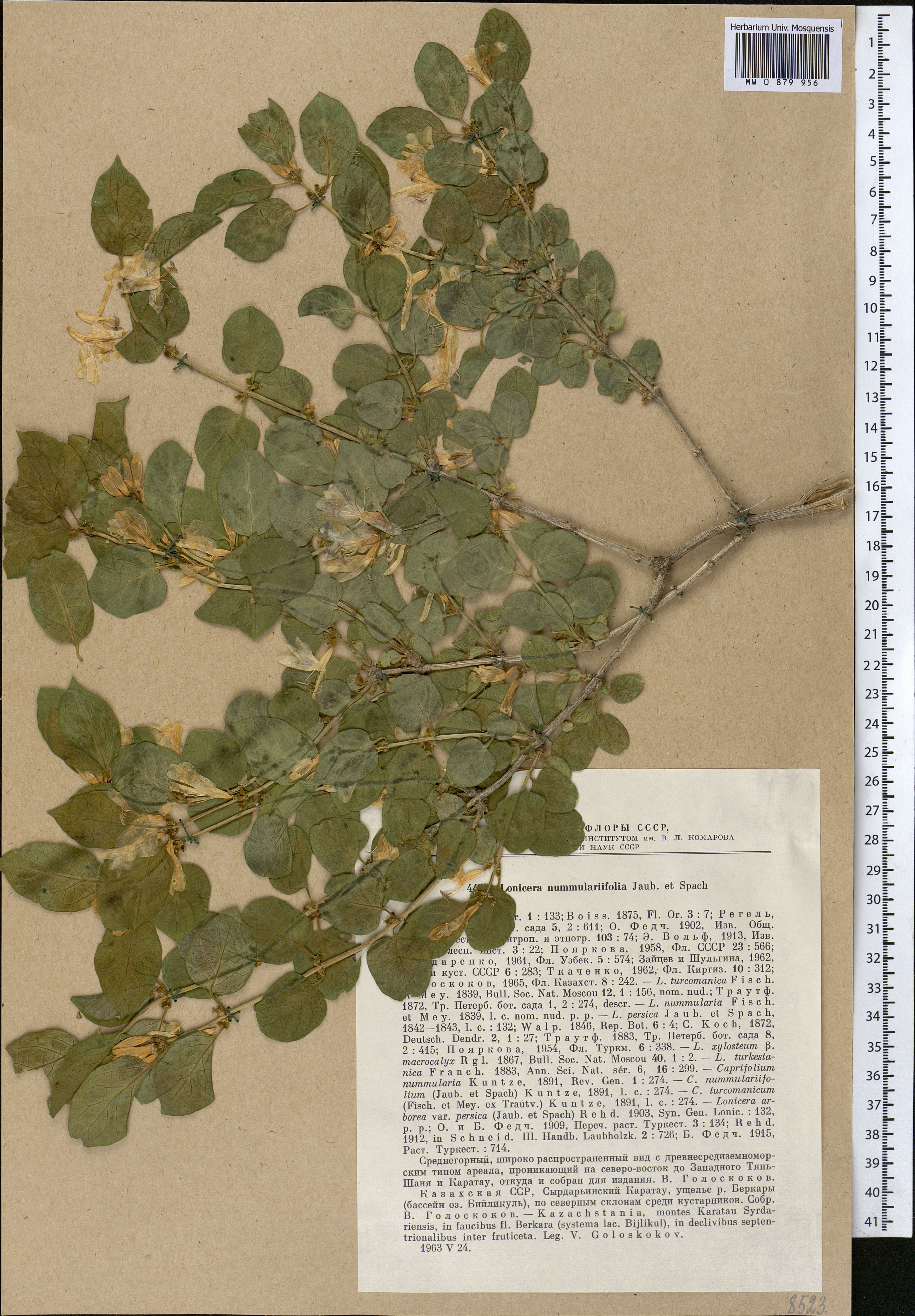 Lonicera nummulariifolia Jaub. & Spach Middle Asia. Western Tian Shan & Karatau Seregin A. P. (Ed.). 2018. Specimen MW0879956 from the collection "Moscow University Herbarium" // Depository of Live Systems (branch "Plants"): Electronic resource. – Moscow State University, Moscow. – Available at: (access date: 2018-01-15). – Rights Holder: Moscow State University